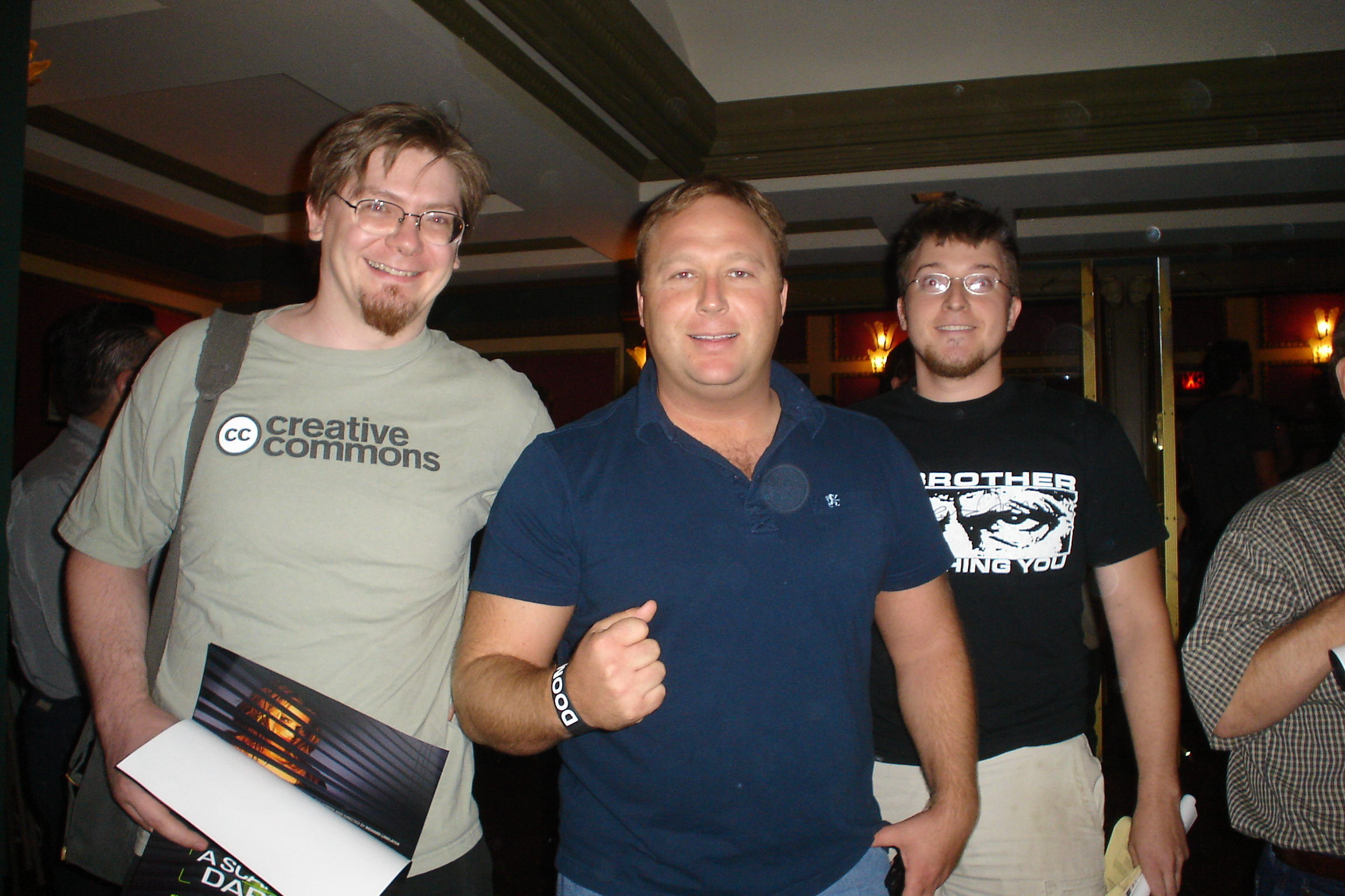 This image was taken at the Paramount Theatre in Austin, Texas at the première of the movie A Scanner Darkly which Alex Jones is featured in. Pictured in this image from left to right are an anonymous filmgoer, Alex Jones, and the author of this image.